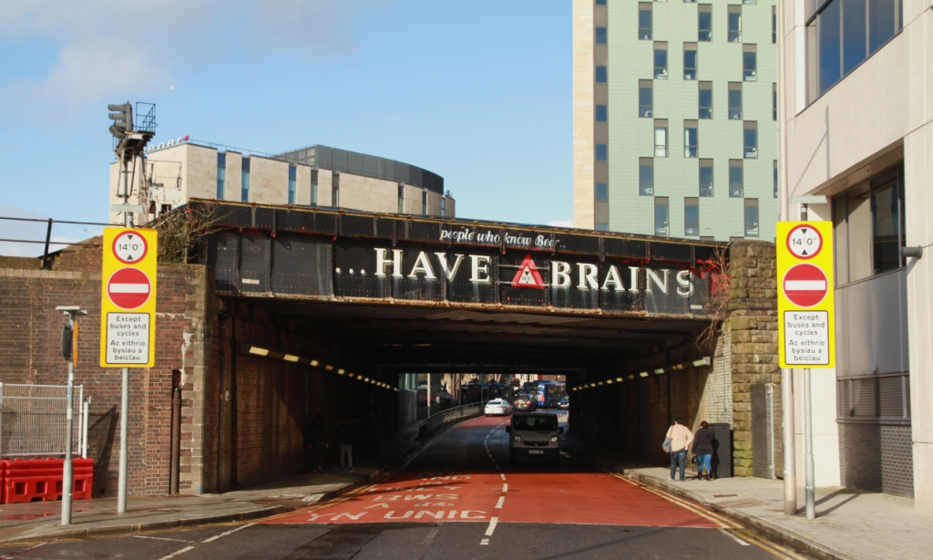 Penarth Road railway bridge, Cardiff, Wales, seen from the south